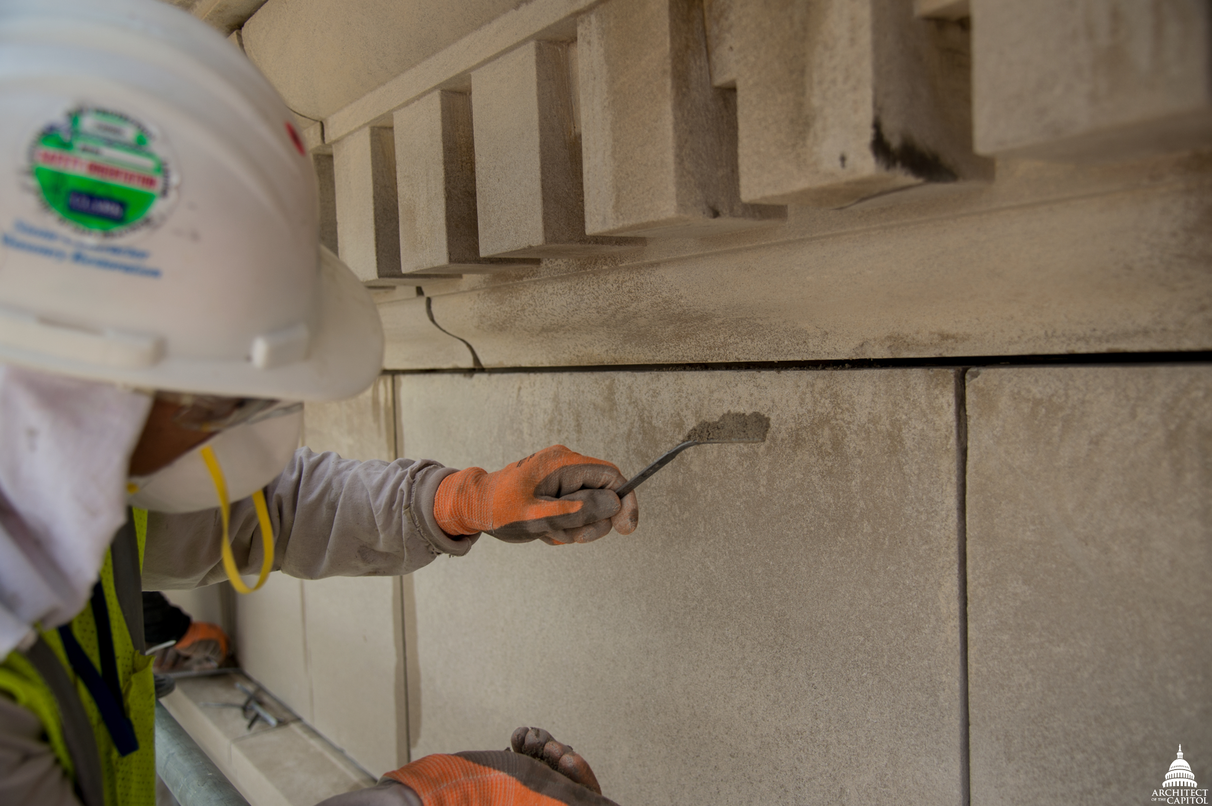 Repointing continues on the Cannon Building's stone facade. Phase 1 of the Cannon Renewal Project began in January 2017 and is scheduled to be complete in November 2018. The entire west side of the building, from the basement to the fifth floor, is closed. Work includes demolishing and rebuilding the fifth floor, conserving the exterior stonework and rehabilitating the individual office suites. Full project details at